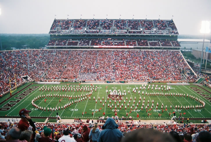 The east side of Gaylord Family Oklahoma Memorial Stadium during halftime of a football game September 2, 2006